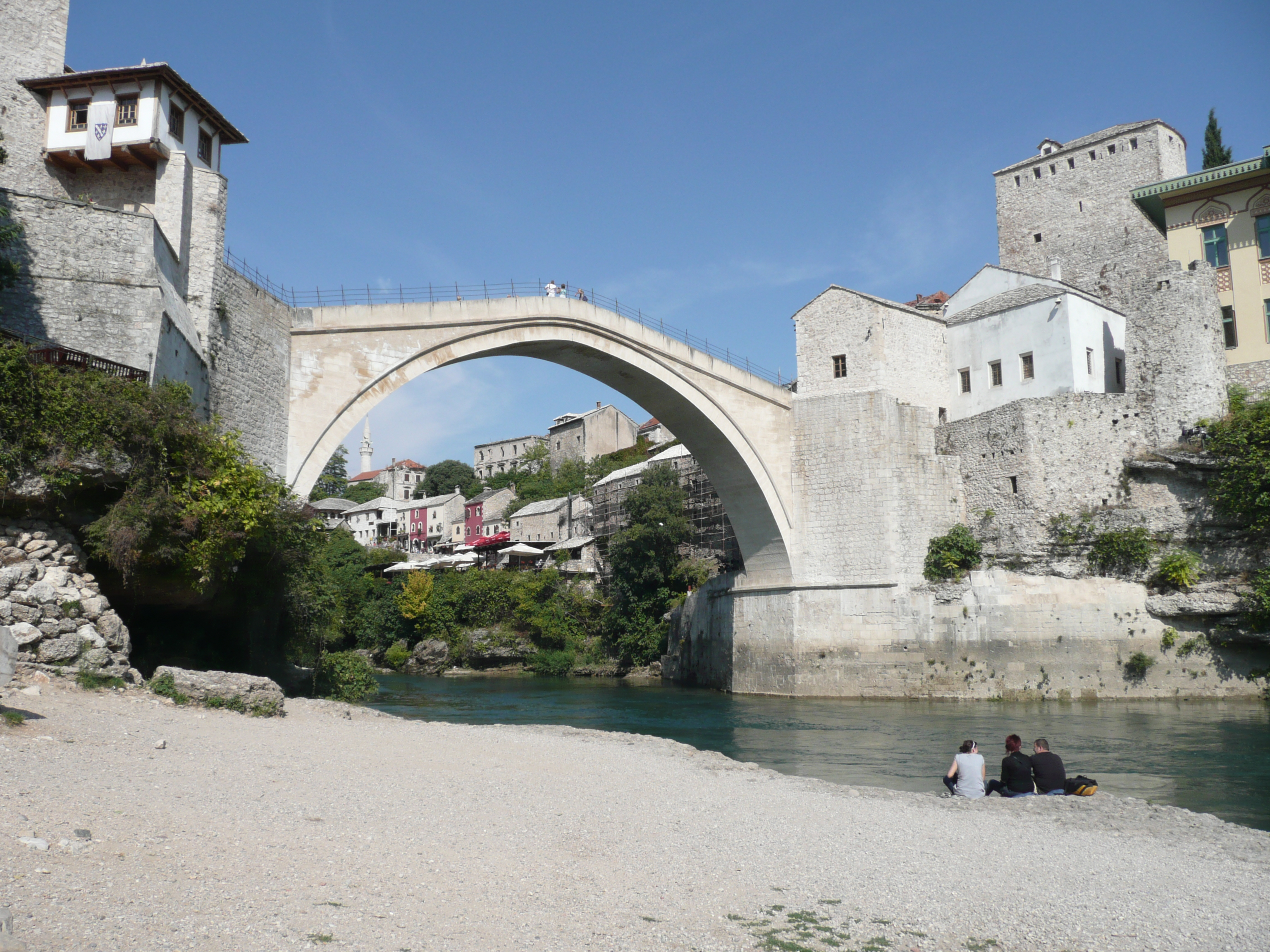 The new "Old Bridge"(Stari Most)